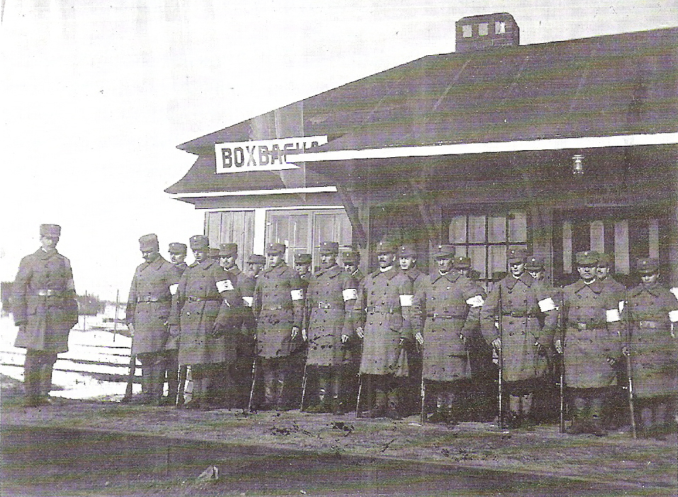 Old Pukinmäki railway station in Helsinki, Finland, in 1919